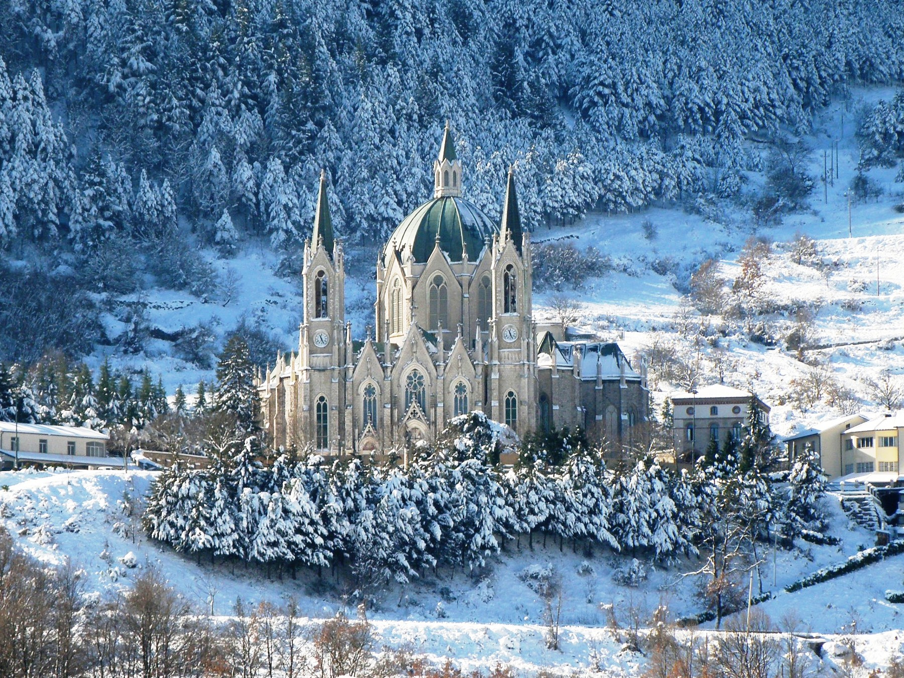 Sanctuary of Castelpetroso (Isernia) - Molise - Italy